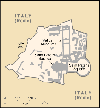 Map of the "Holy See" (Vatican City), showing points of interest and city wall.